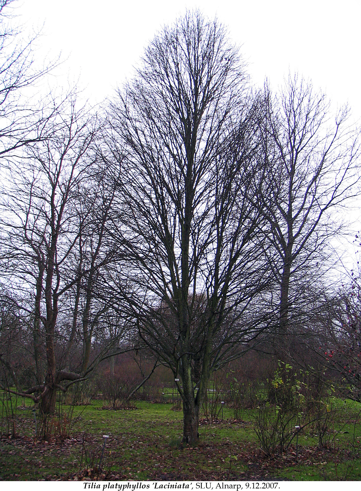 Tilia platyphyllos 'Laciniata'